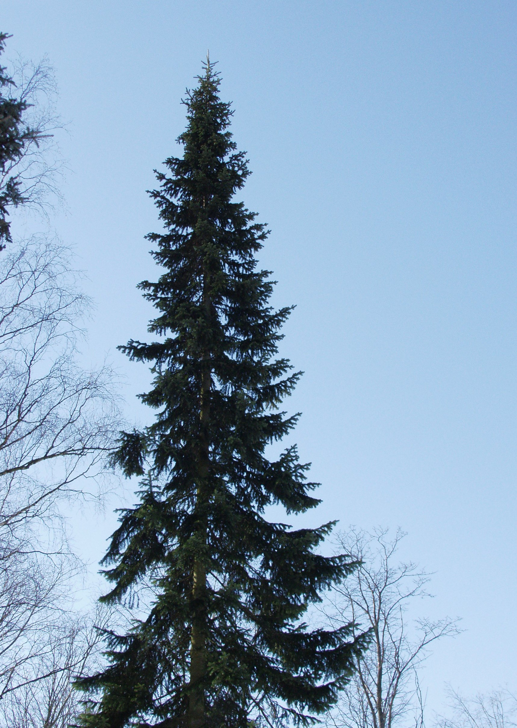 A tree of european white fir (Abies alba) in the Belarussian National botanical garden (Minsk city)